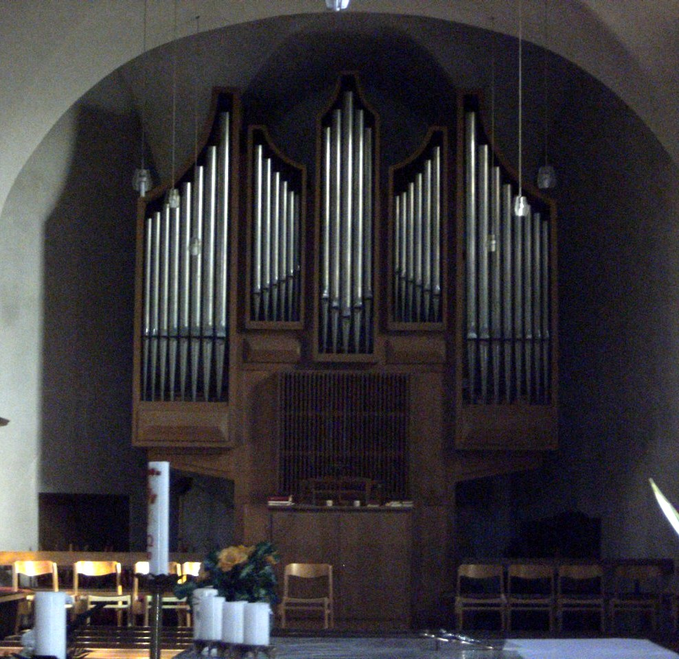 Hugo-Mayer-Organ of St. Alban's church Thalexweiler, Saarland, Deutschland